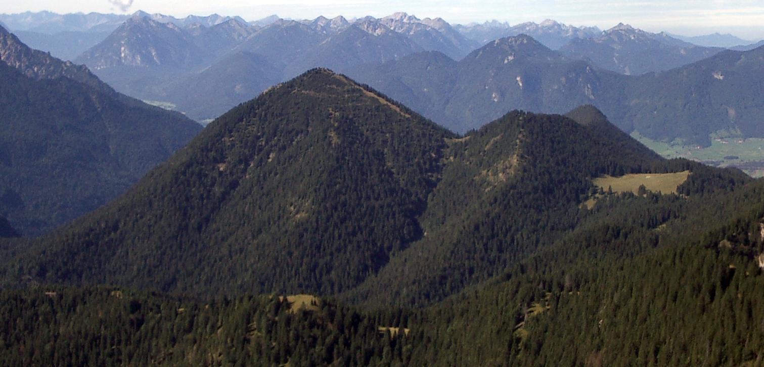 Please report references to .